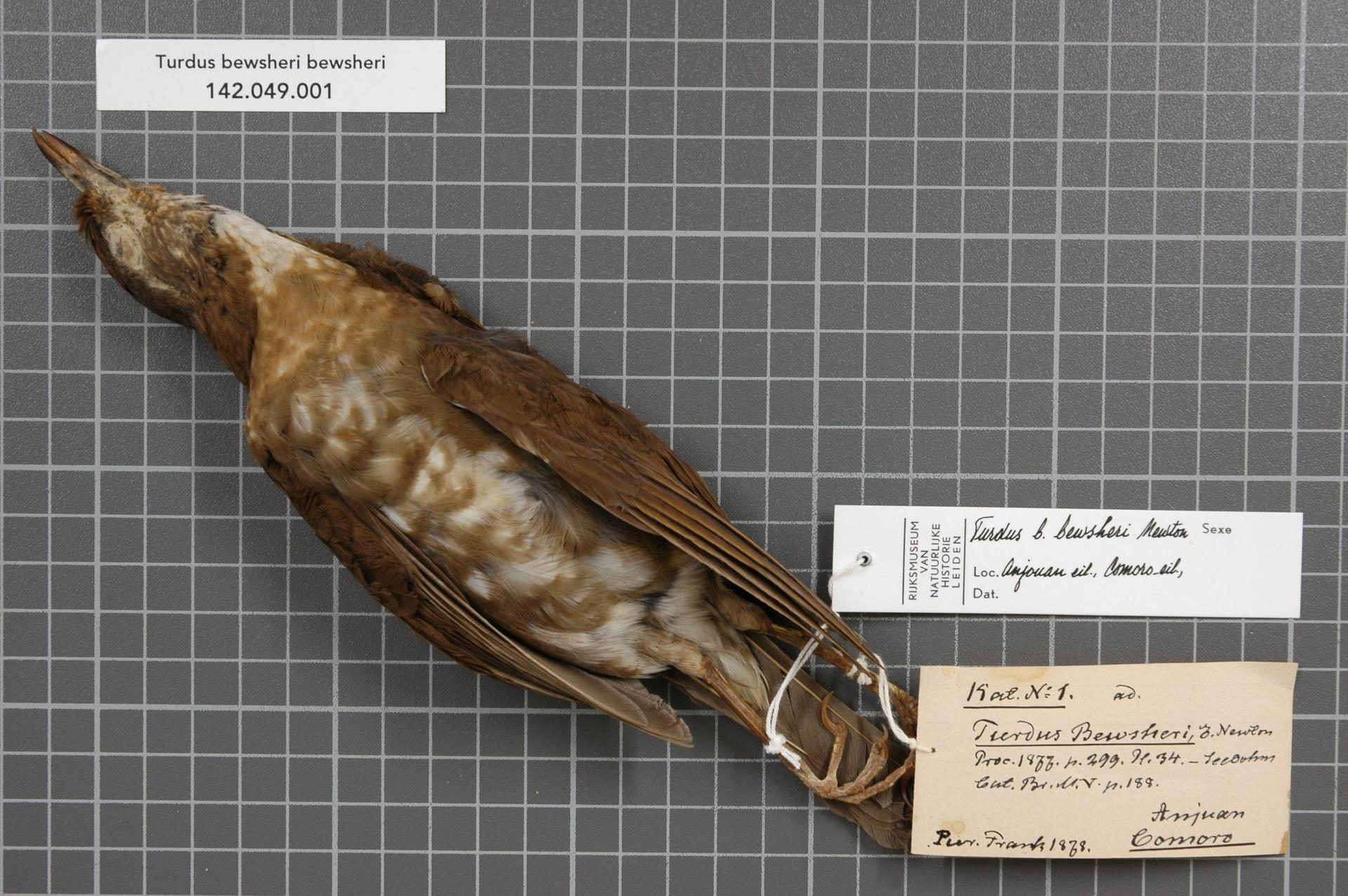 Turdus bewsheri bewsheri Newton, 1877